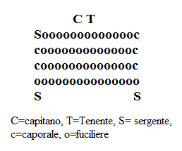 Kingdom of Sardinia, Fusilier Company deployed, 1744